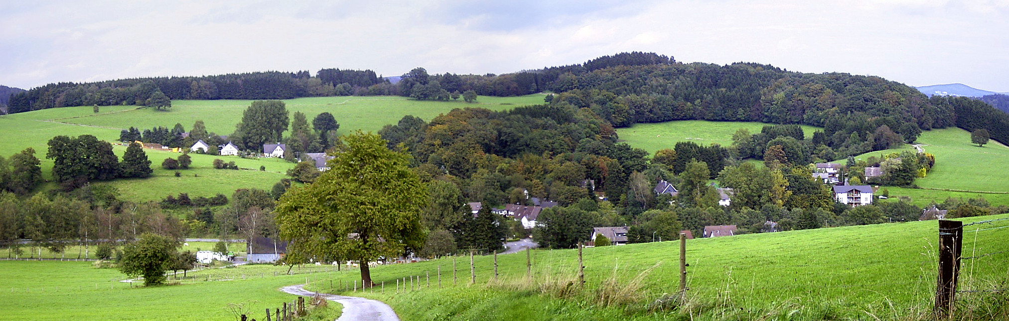 view of Hardt-Hanfgarten, district of Gummersbach, North Rhine-Westphalia, Germany